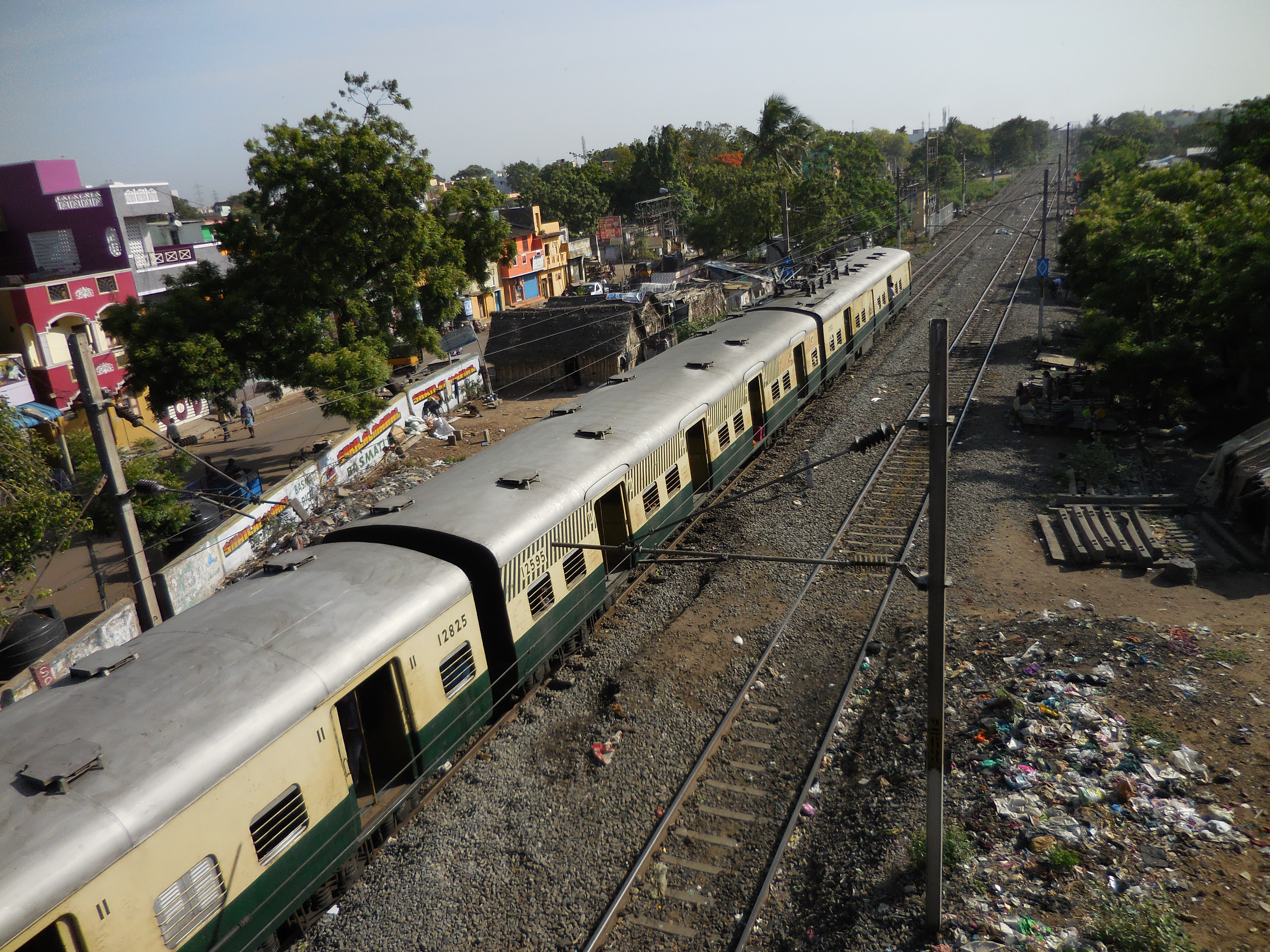 A view of the North suburban railway line near Washermanpet, Chennai, taken on 4 July 2014 at 8:24 am